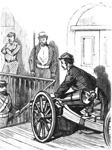 The railroad in New York guarded by artillery